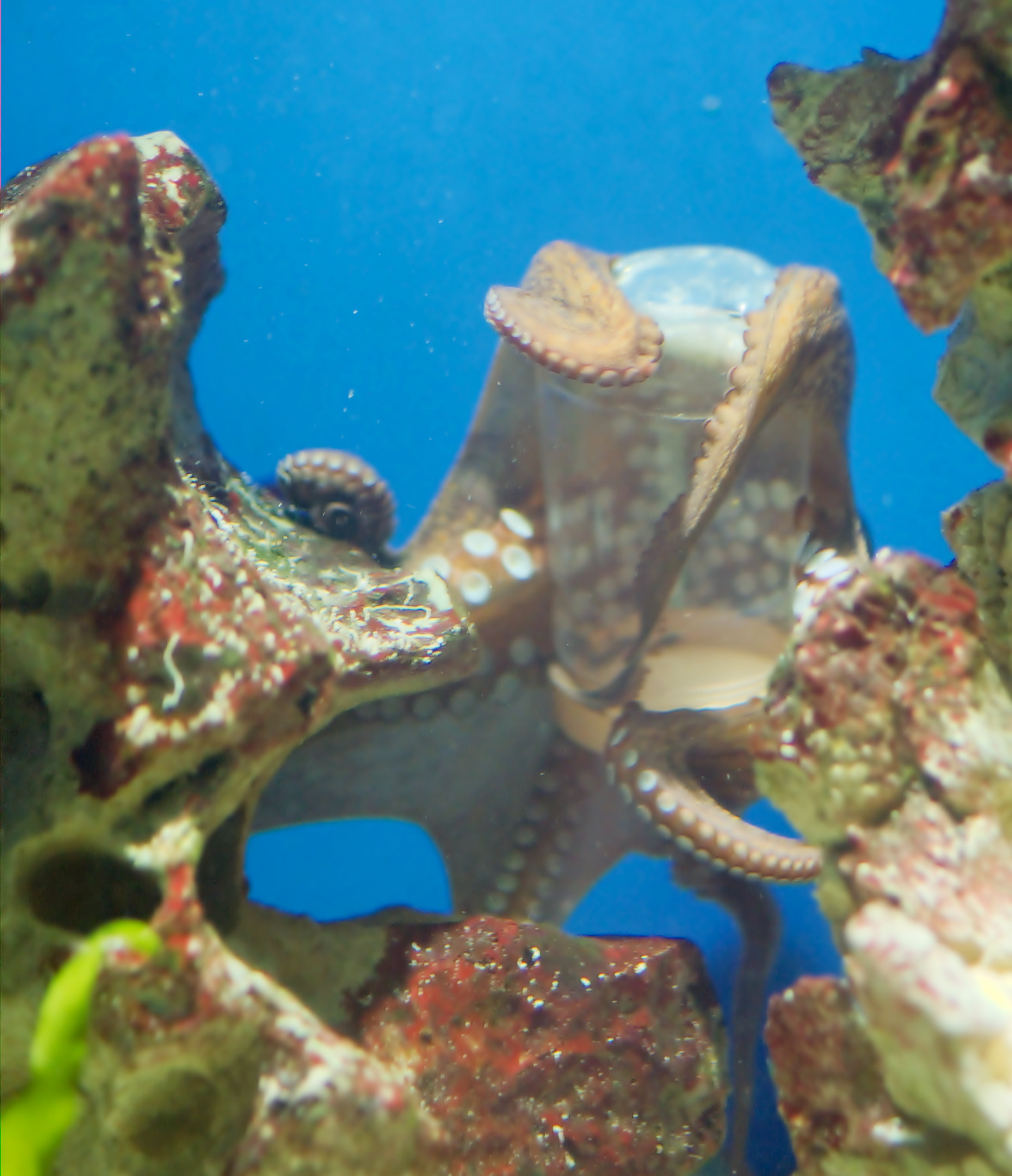 Octopus opening a container with a screw cap. Photographed at "Haus der Natur", Salzburg, Austria